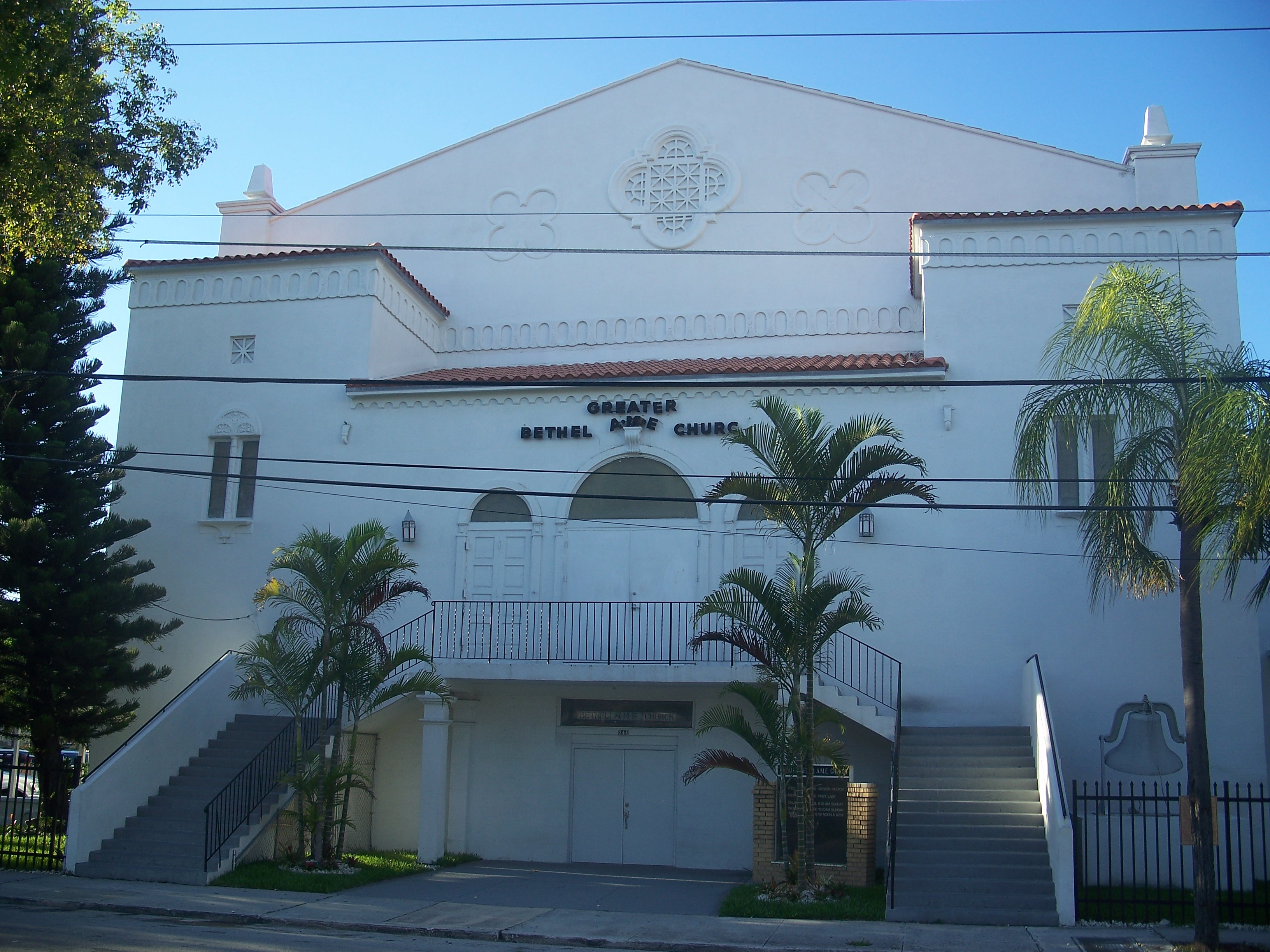 Miami, Florida: Overtown: Greater Bethel AME Church